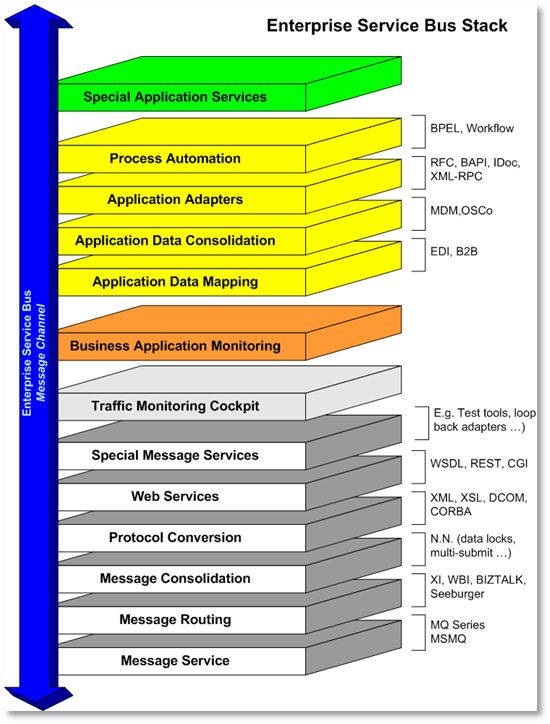 Component Hive of an Enterprise Service Bus